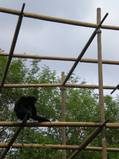 A monkey at the Cincinnati Zoo, August 2008